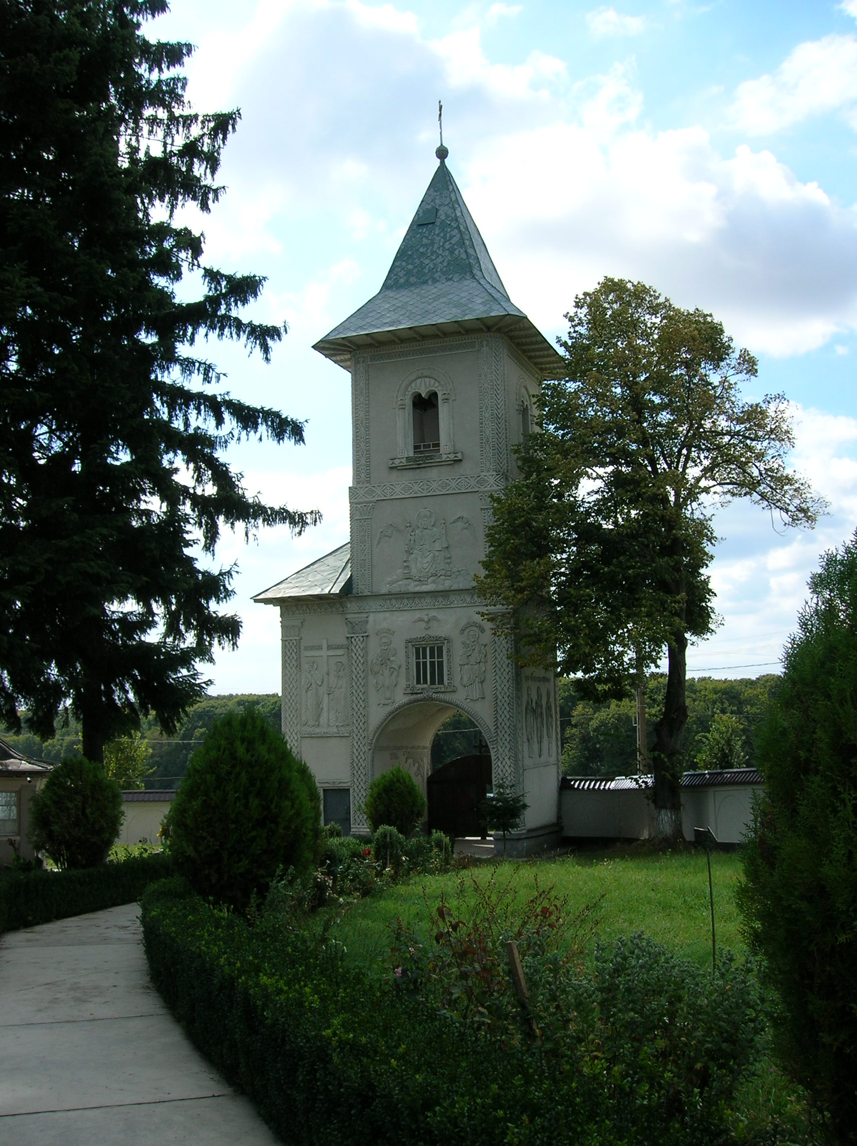 Runc Monastery, Runc village, Bacău County, Romania